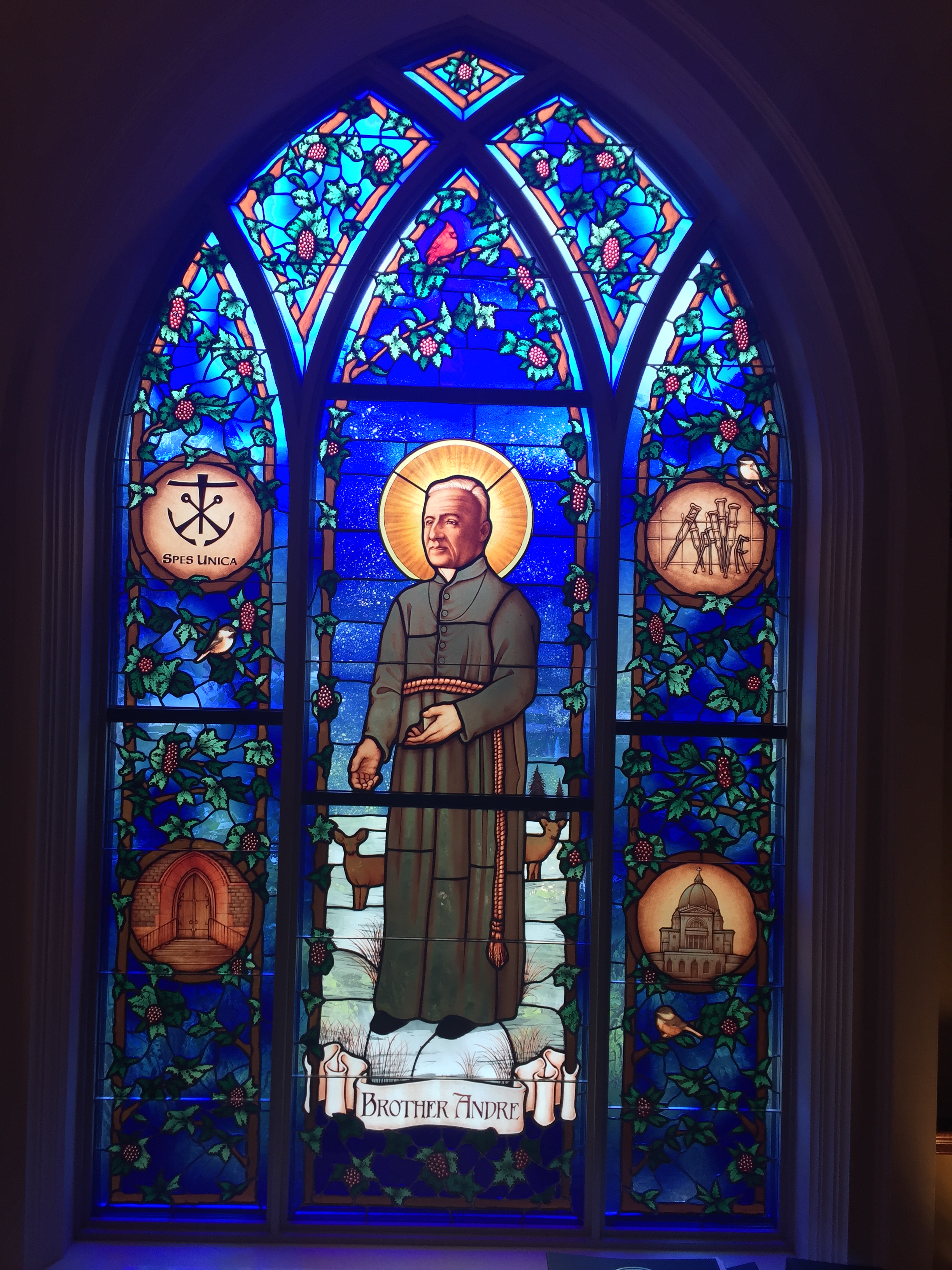 Campus of the University of Notre Dame